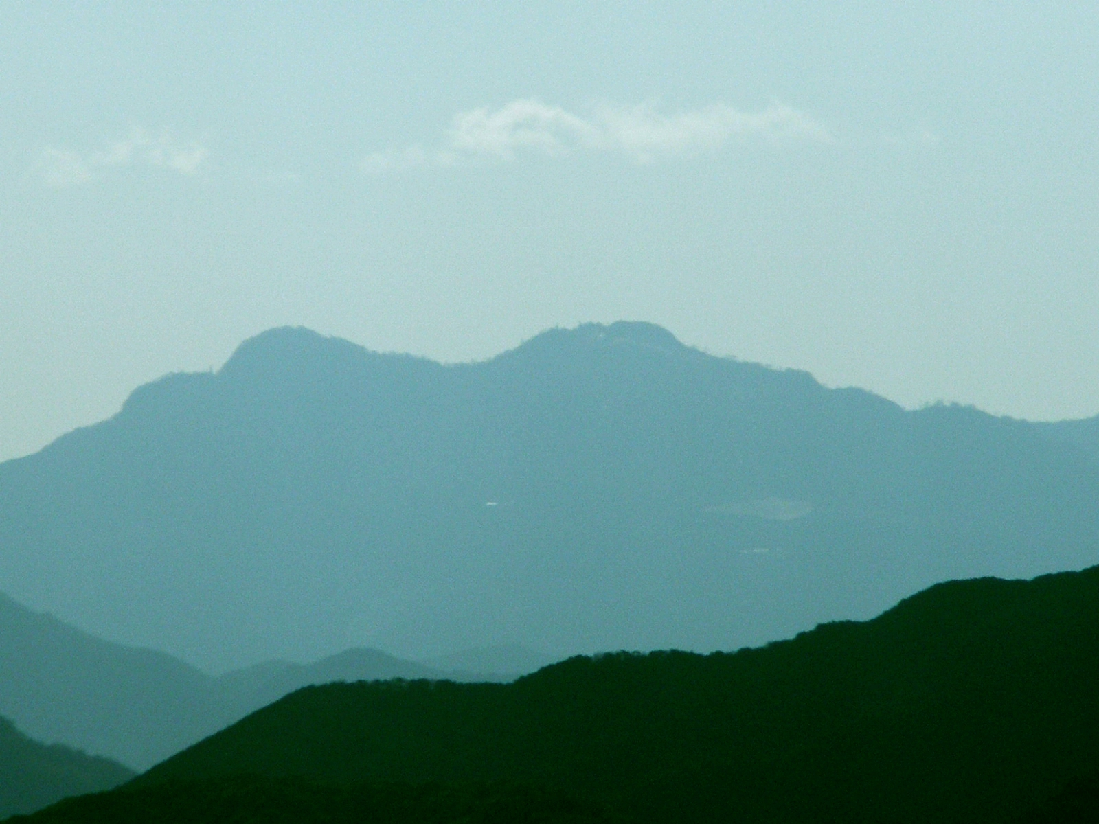 Mount Hiko; photo taken from Mount Sarakura